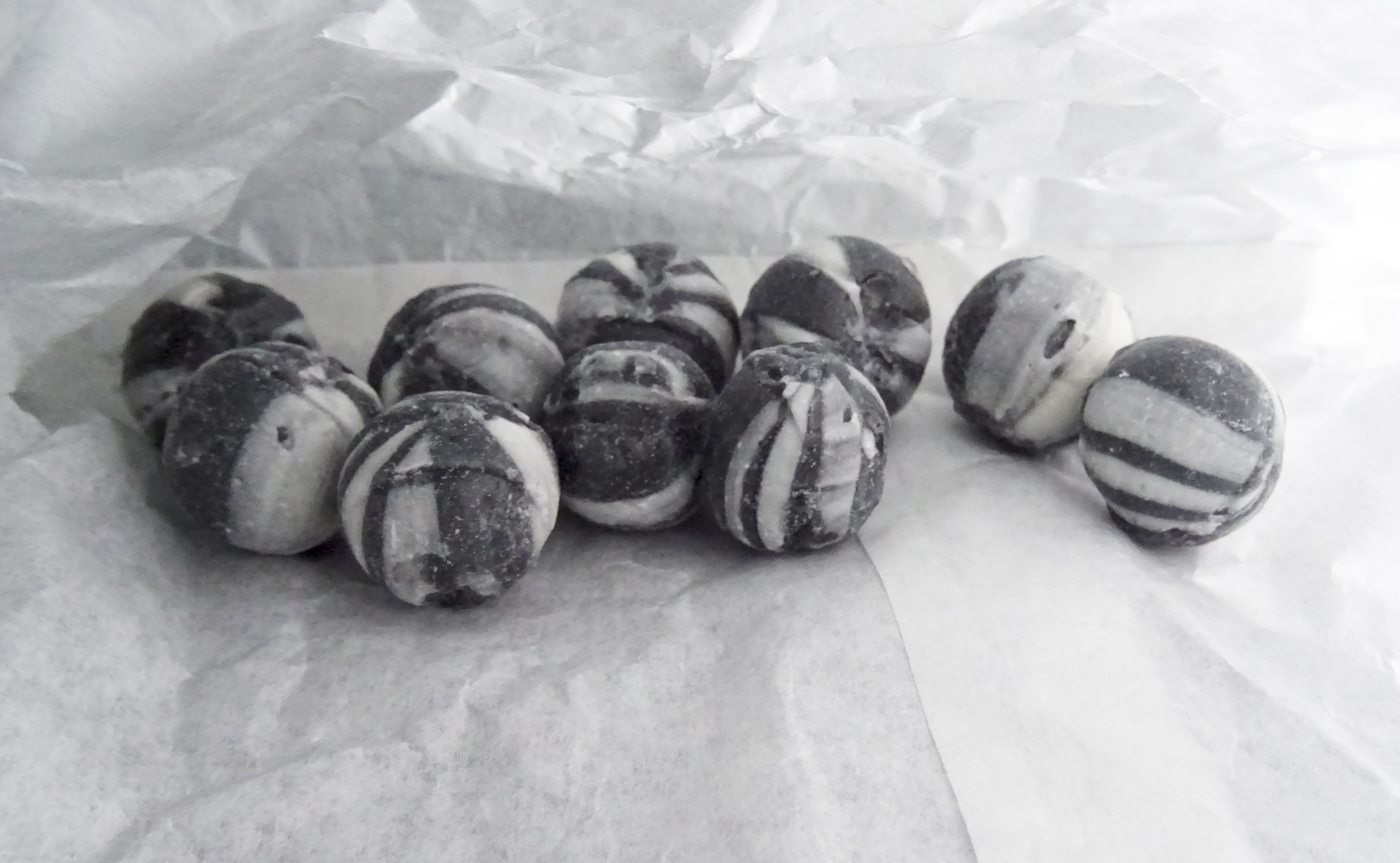 Bulls eyes in a bag purchased from Sweet Memories of Hadleigh, Suffolk, United Kingdom in January 2019.